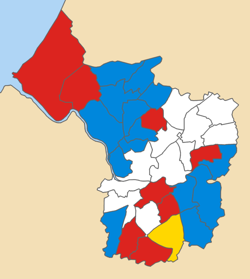 Results of the 1992 local elections in Bristol Colours: Conservative Labour Liberal Democrat No election in 1992